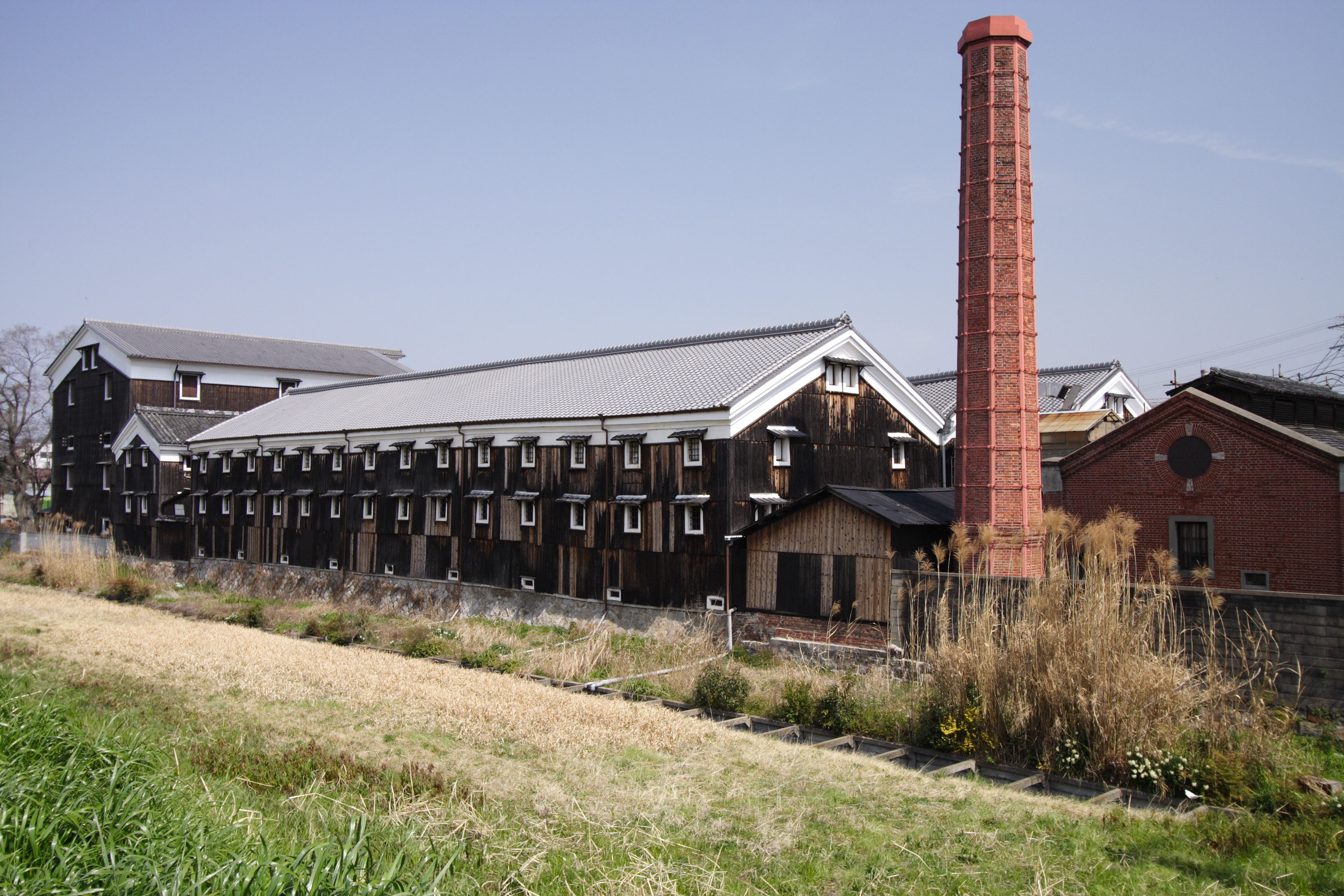 松本酒造株式会社 京都市伏見区/Matsumoto Syuzo, traditional Japanese Sake brewery in Kyoto, Japan